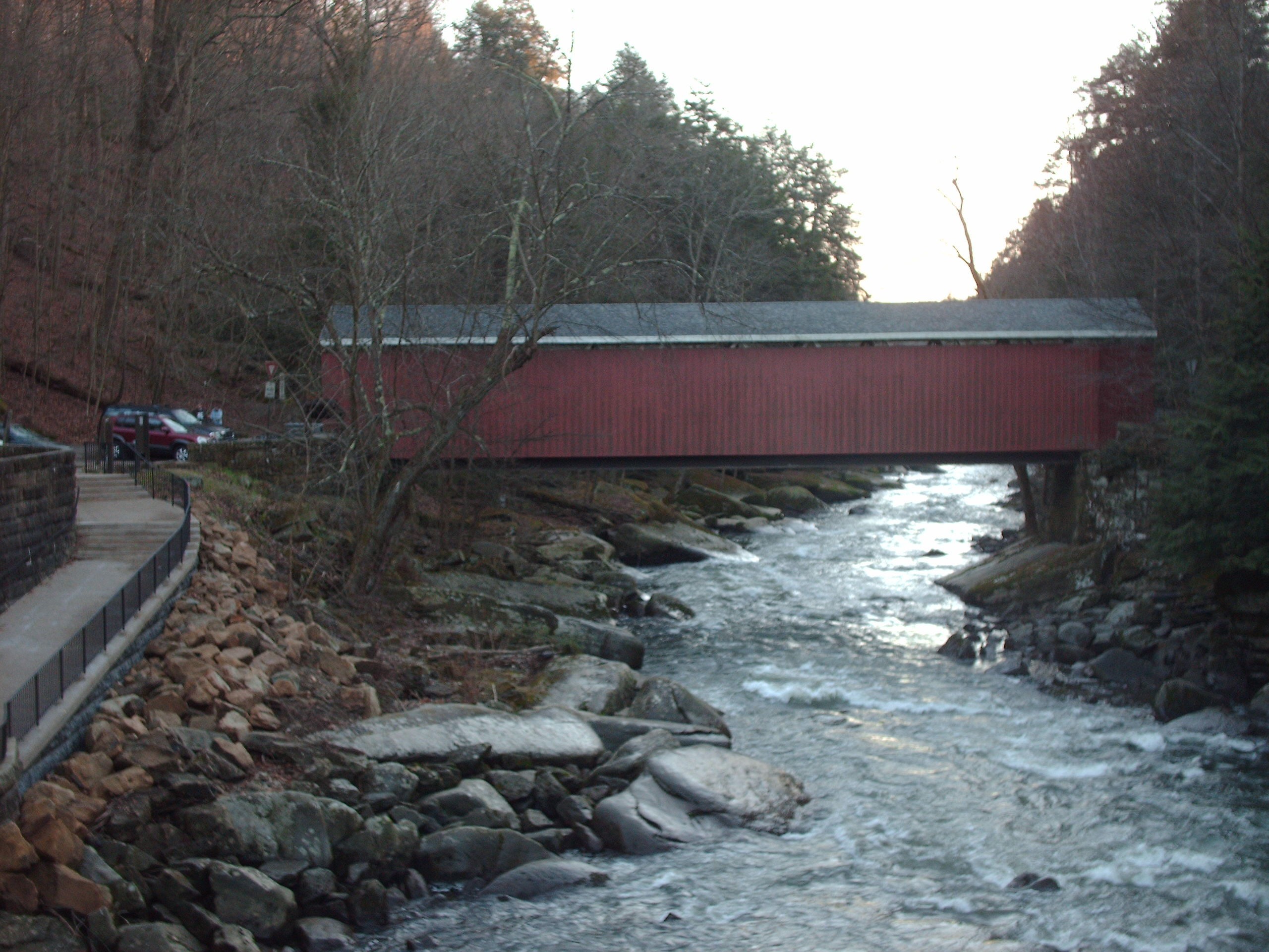 View of McConnell's Mill Covered Bridge at McConnells Mill State Park, located in far eastern Slippery Rock Township, Lawrence County, Pennsylvania, United States. Built in 1874, the bridge is listed on the National Register of Historic Places. Picture taken from walkway at the watermill itself.